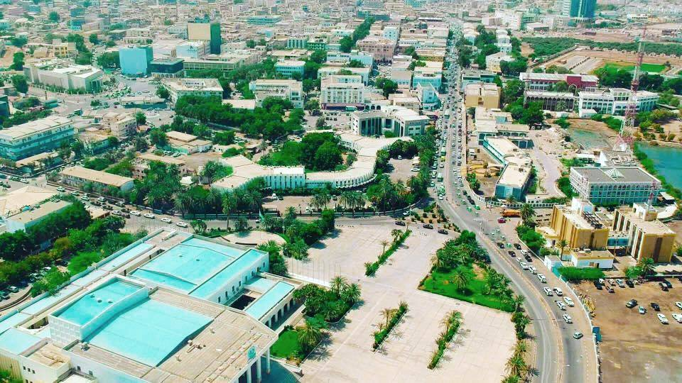 An aerial view of Djibouti City, the capital of Djibouti.